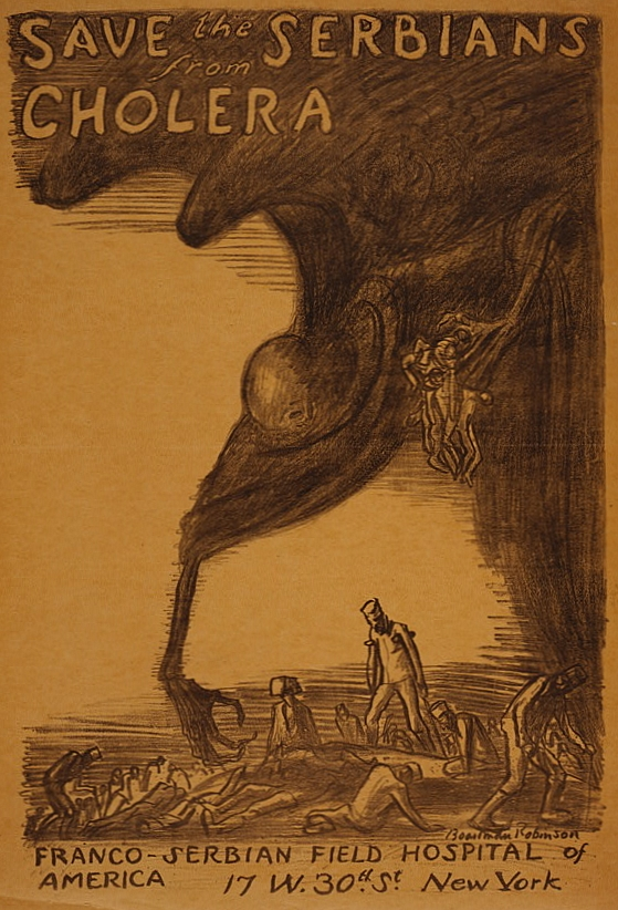 World War I poster by American illustrator Boardman Robinson (1876-1952). "Save the Serbians from cholera. Franco-Serbian Field Hospital of America, 17 W. 30th St., New York."